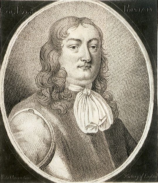 Colonel Edward Popham. National Maritime Museum Image reference: PU2501.